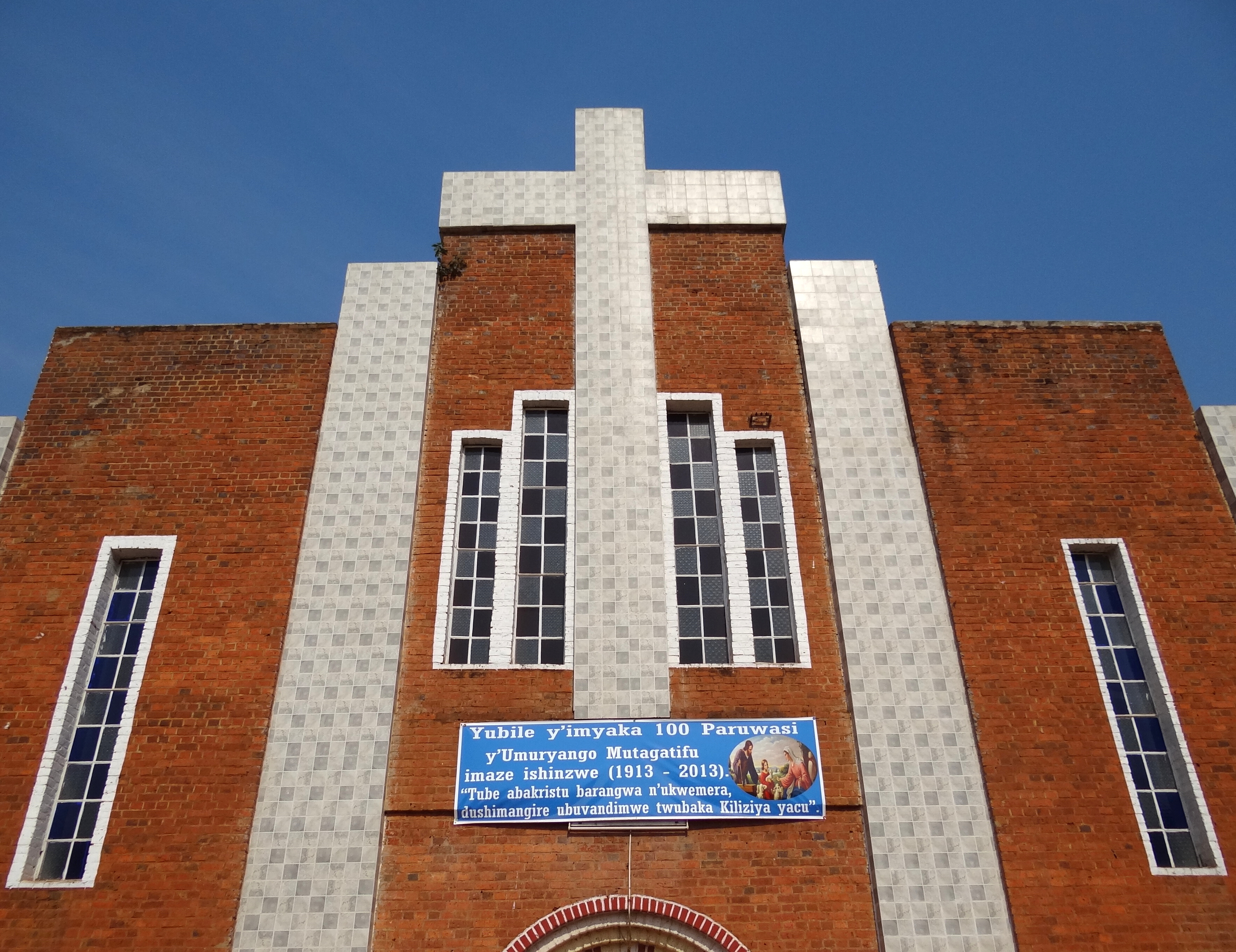 Facade of Ste.-Famille Church - Genocide Site - Kigali - Rwanda